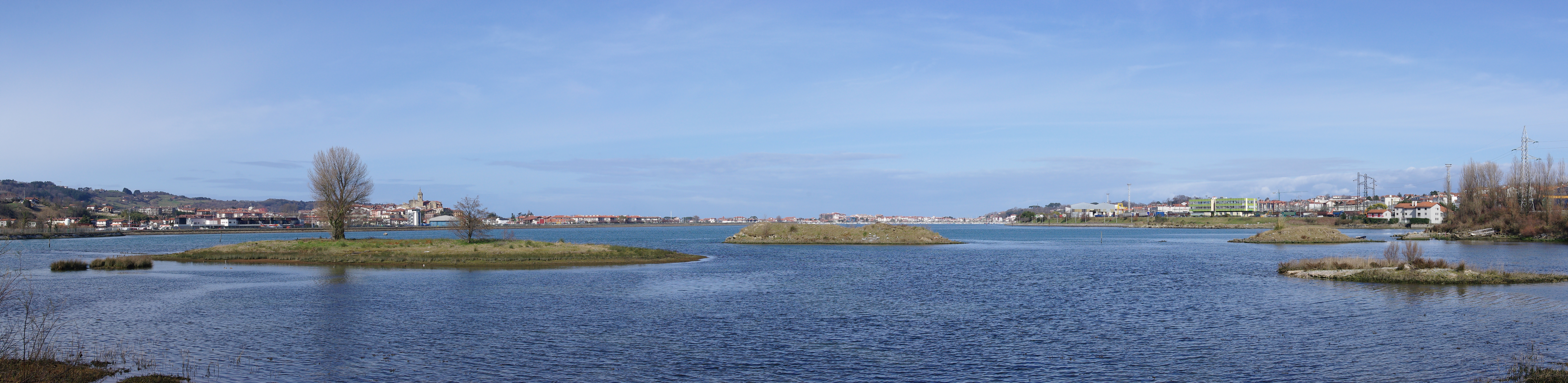 Ecological park of Plaiaundi, marshes of Txigundi bay, high tide. Irun, Spain.